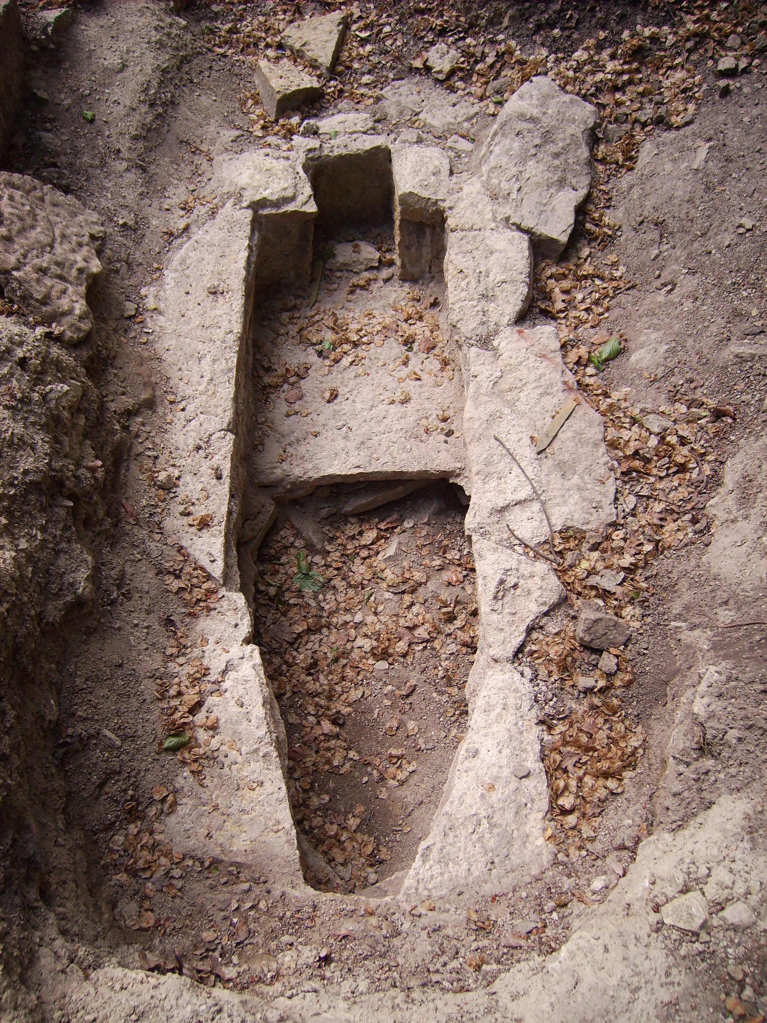 Some hundreds years before the monastery Varnhem was created 1150 of Cistercians, the same place had probably one of the oldest Christian churches in Sweden, during the year 2005 the Museum of Västergötland started an excavation of this old church in stone (from around 1020-1040) and the wood chapel which stood there before. More than 1000 skeletons were found, from the oldest church, the women and children were found on the north side and the men on the south, but later all the graves are on the south side, the richest people closest to the church. Around this old church ruin there are Iron Age buried hills and places for some kind of village, silver treasures have been found in the same area. Pictures are from the excavation summer 2007.